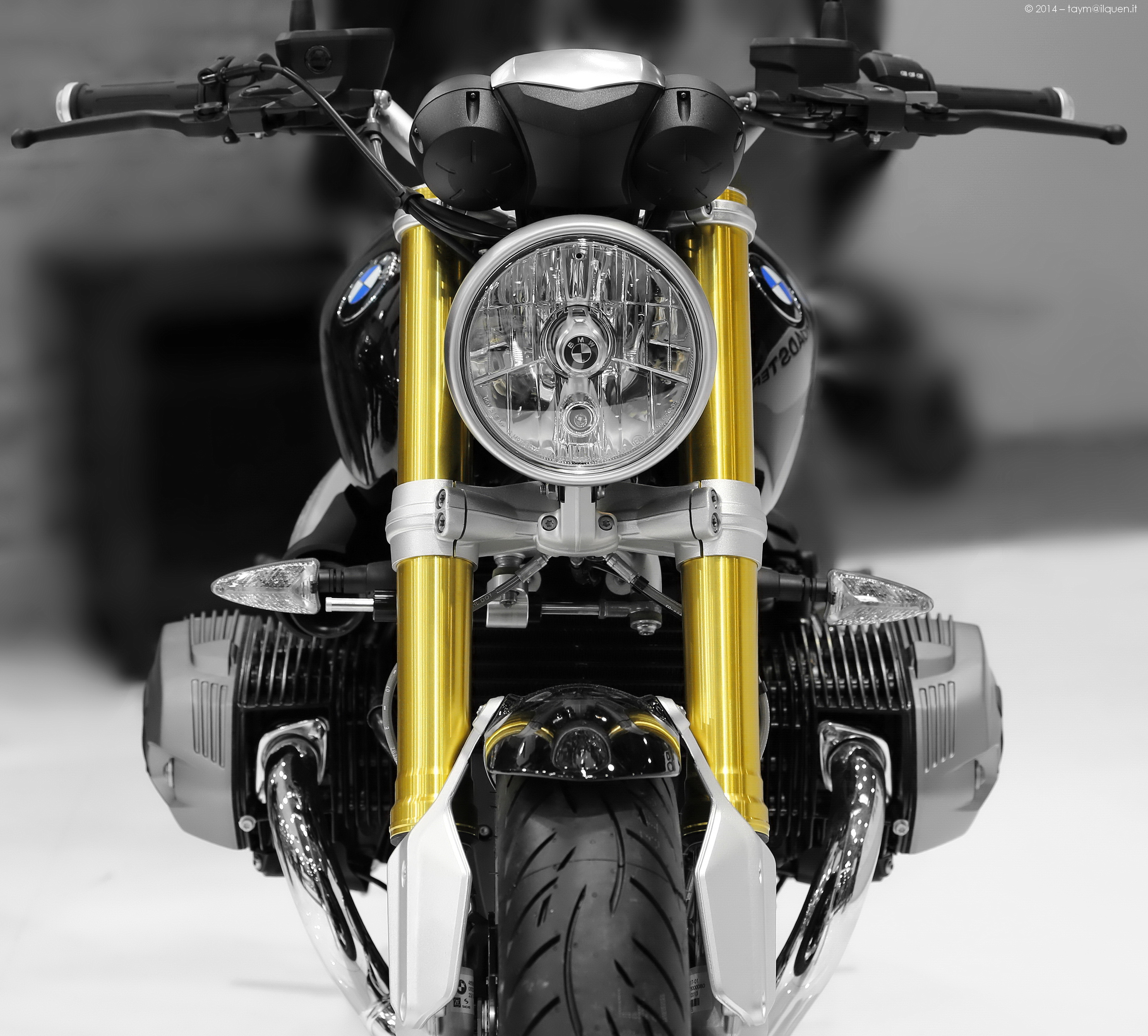 BMW R nineT front at Motodays 2014 in Roma, Italy